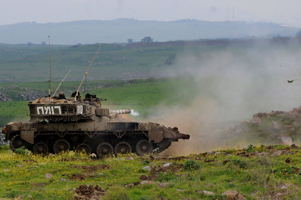 February 28, 2012 Last month, the IDF Artillery Corps' cadets conducted a competence day, testing their abilities by competing one another. On that day, the soldiers competed in many ways- inserting the shells into the canons the fatest, aiming the canon the fastest, and last- firing the shells as quickly and accurately as possible. The Israel Defense Forces Facebook • blog • Twitter